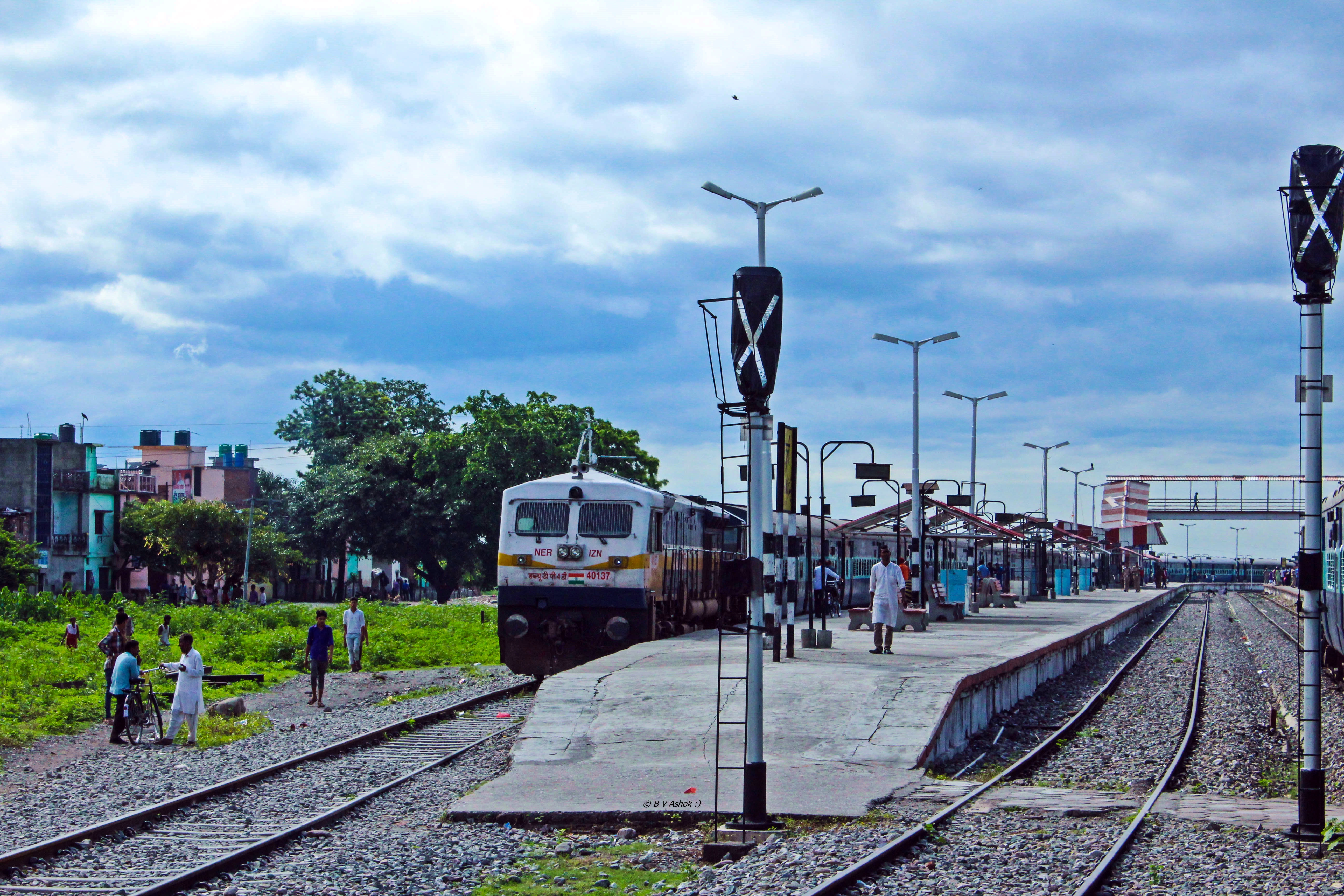 IZN WDP-4D 40137 waits patiently in loopline with 13019 Howrah - Kathgodam Bagh Express at Haldwani , amidst clear sky which was just opposite case at Kathgodam, 6kms away.